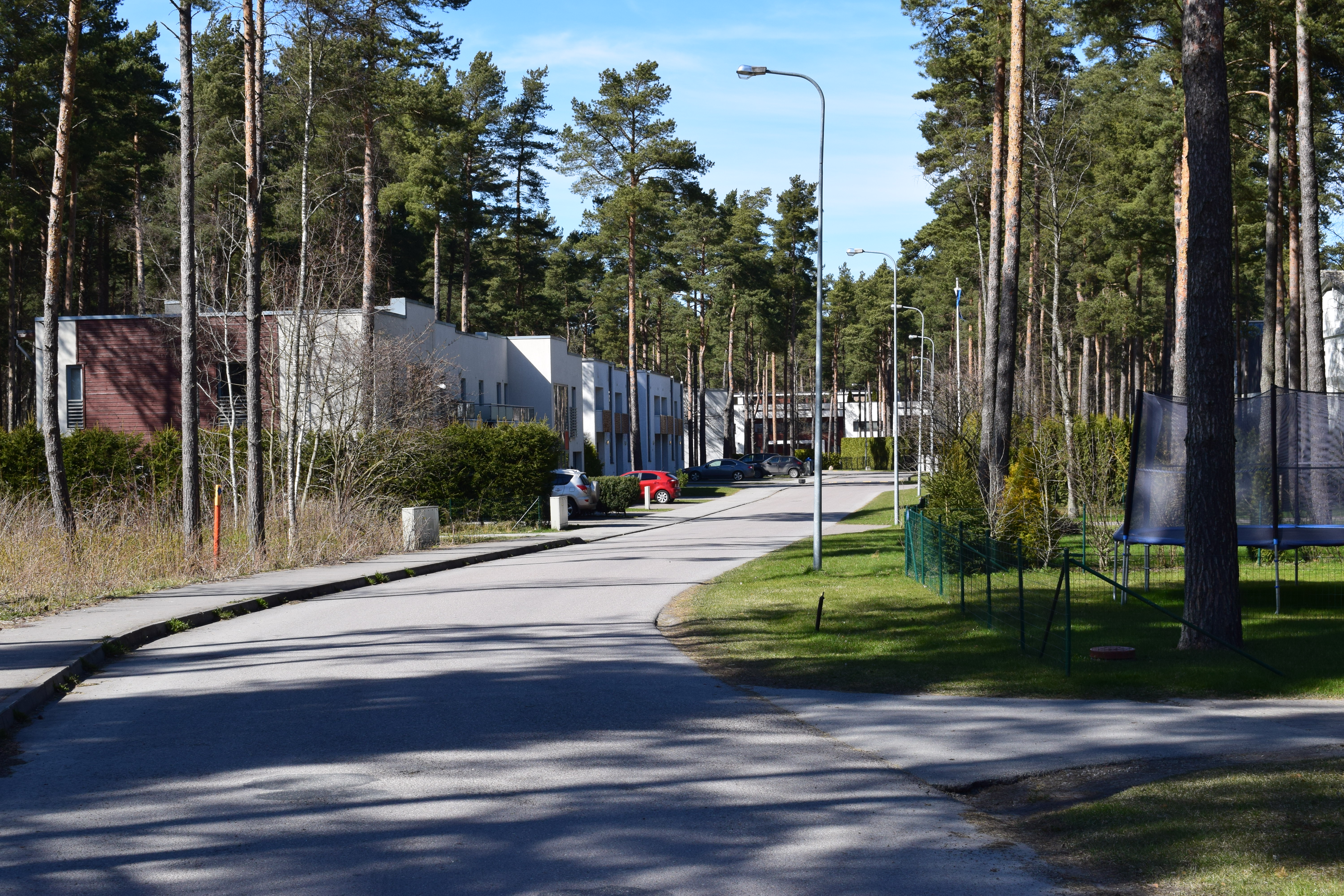 Sirptiiva tänav